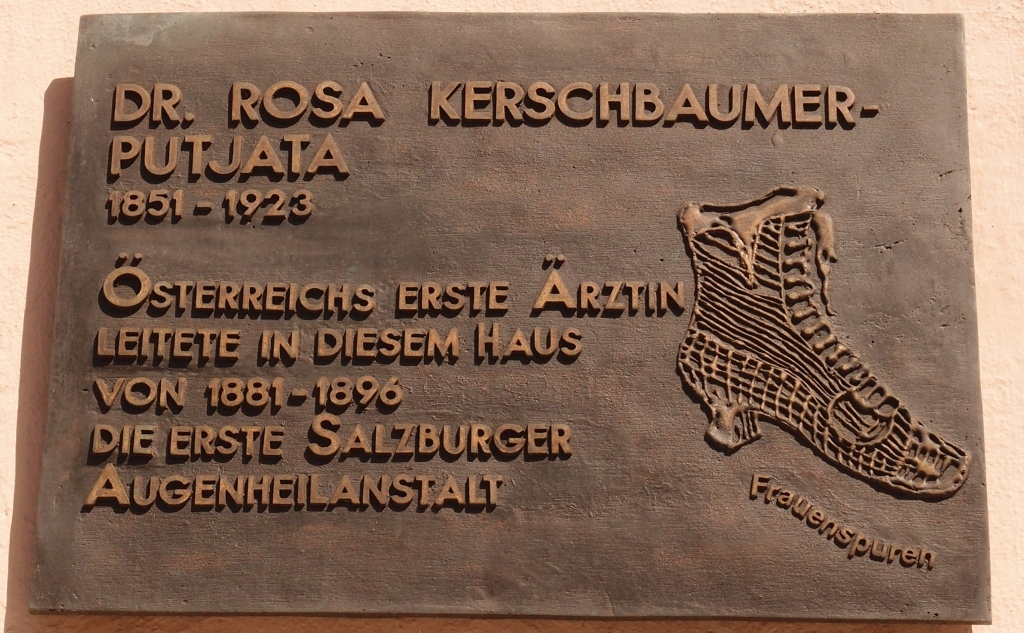 Remembrance plaque to Rosa Kerschbaumer-Putjata in Salzburg, Schwarzstraße 32; Austria's first female physician; emigrated to the United States, died in Los Angeles in 1923.